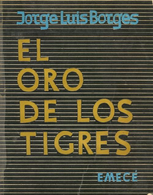 The book "El oro de los tigres"